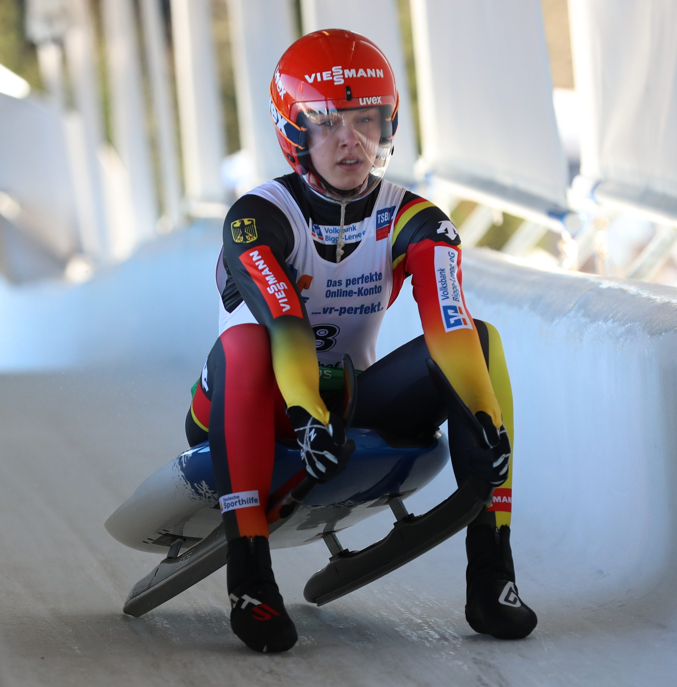 Junior Women race at the 2018/19 Juniors and Youth A Luge World Cup in Oberhof